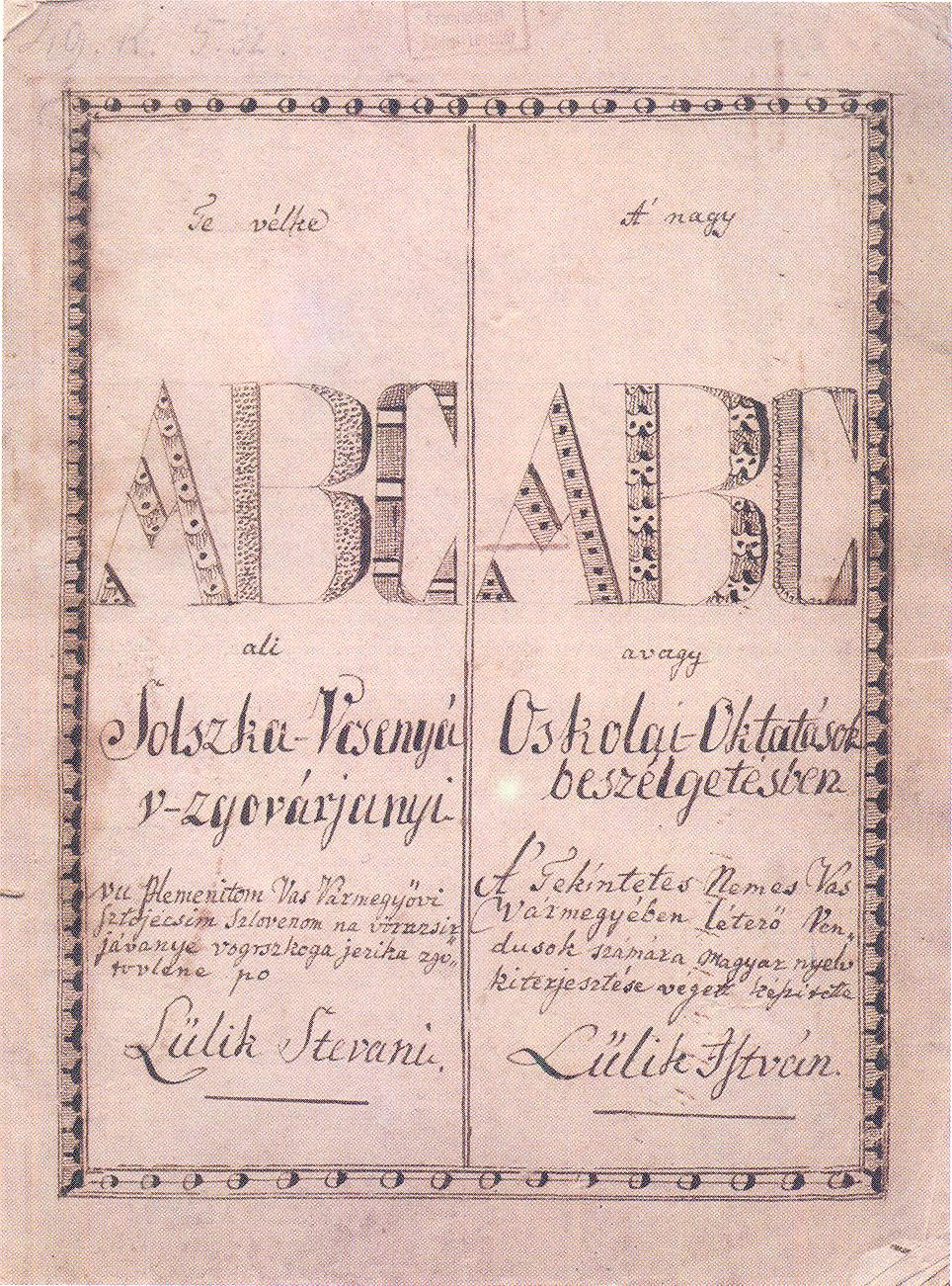 The ABC-book of István Lülik